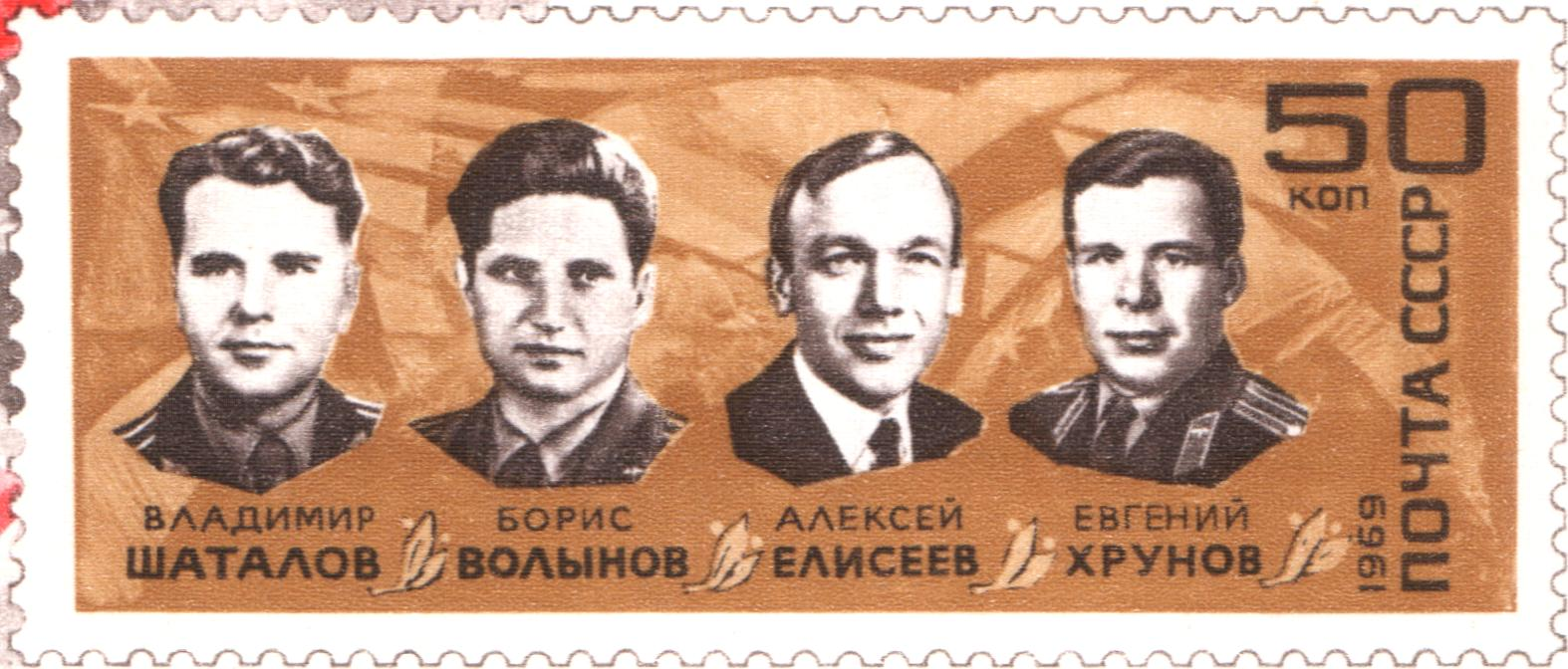 USSR stampː Vladimir Shatalov, Boris Volynov, Aleksei Yeliseyev and Yevgeny Khrunov. Seriesː 1st Team Spaceflights of Soyuz 4 and Soyuz 5, 1/16/69